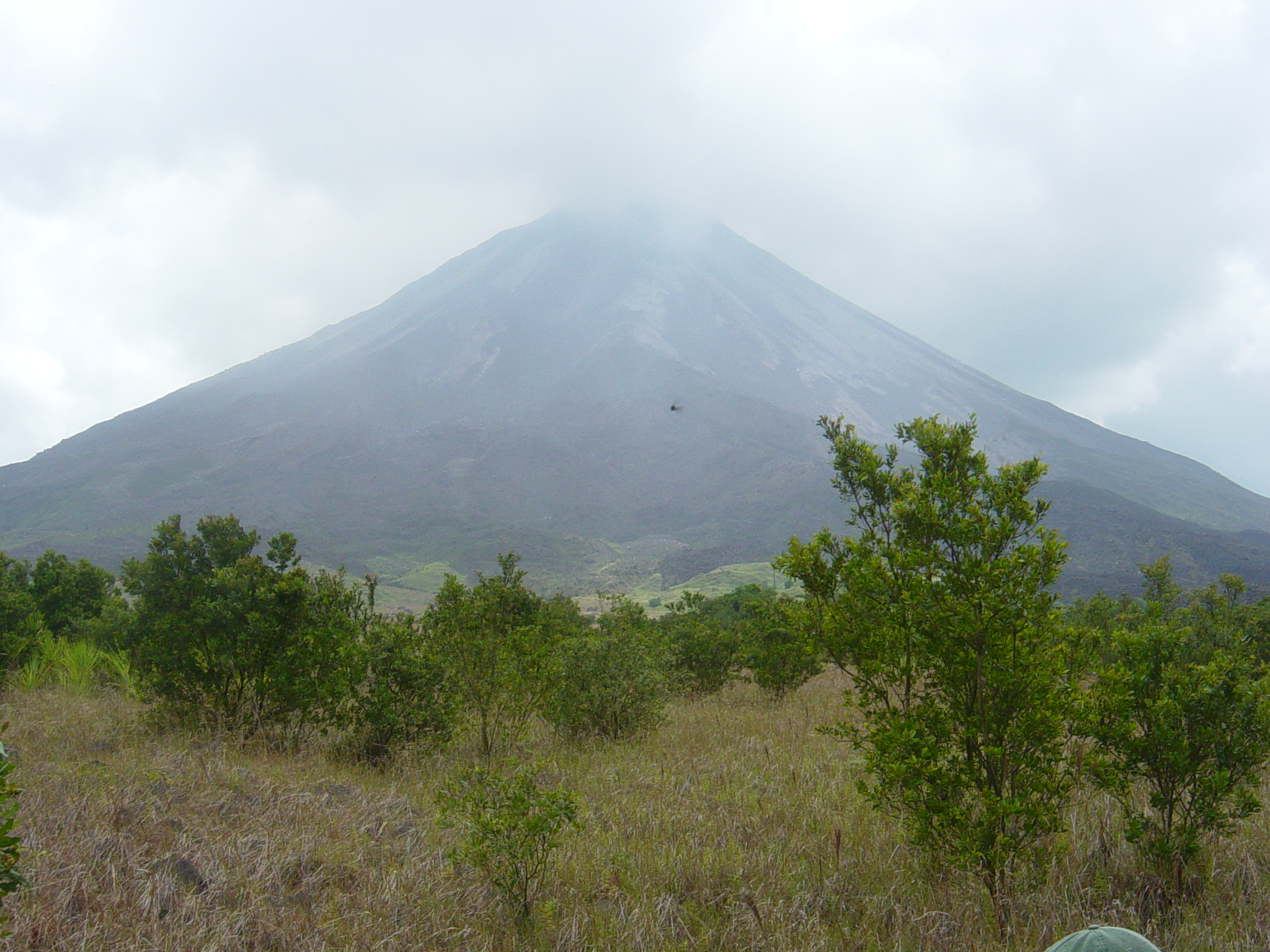 Vulcan Arenal in Costa Rica. Taken by Jacob Norlund.